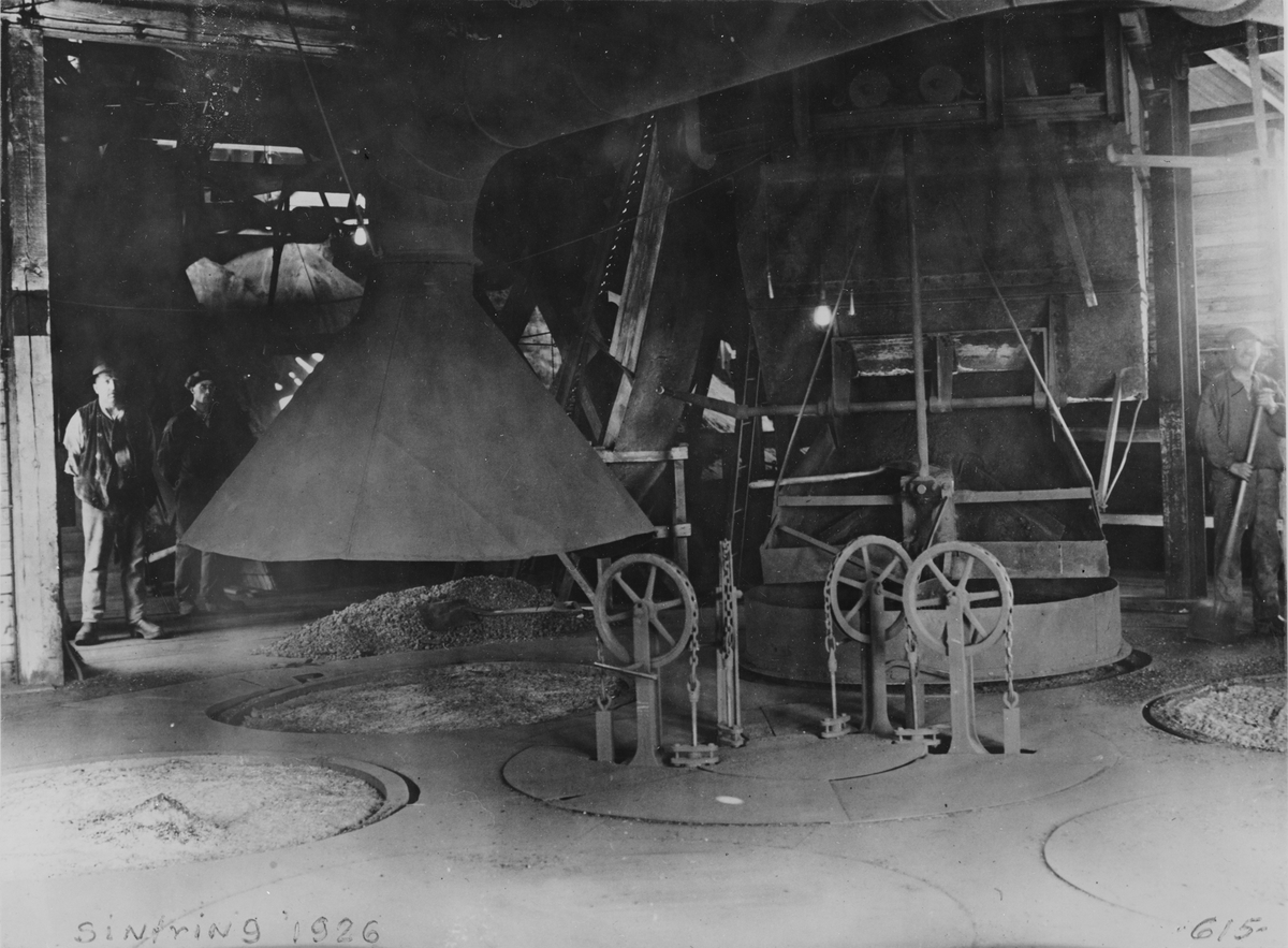 Sintering workshop in Spännarhyttan, 1926, Norberg, Sweden.